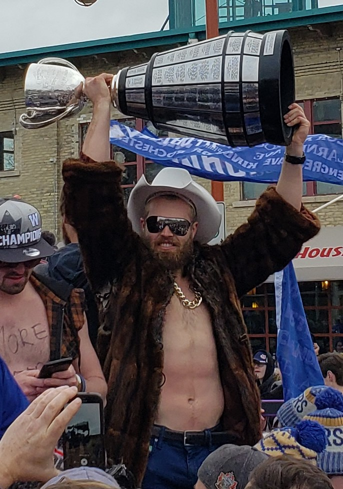 Chris Streveler with the Grey Cup during the Blue Bombers 2019 championship parade at The Forks in Winnipeg.